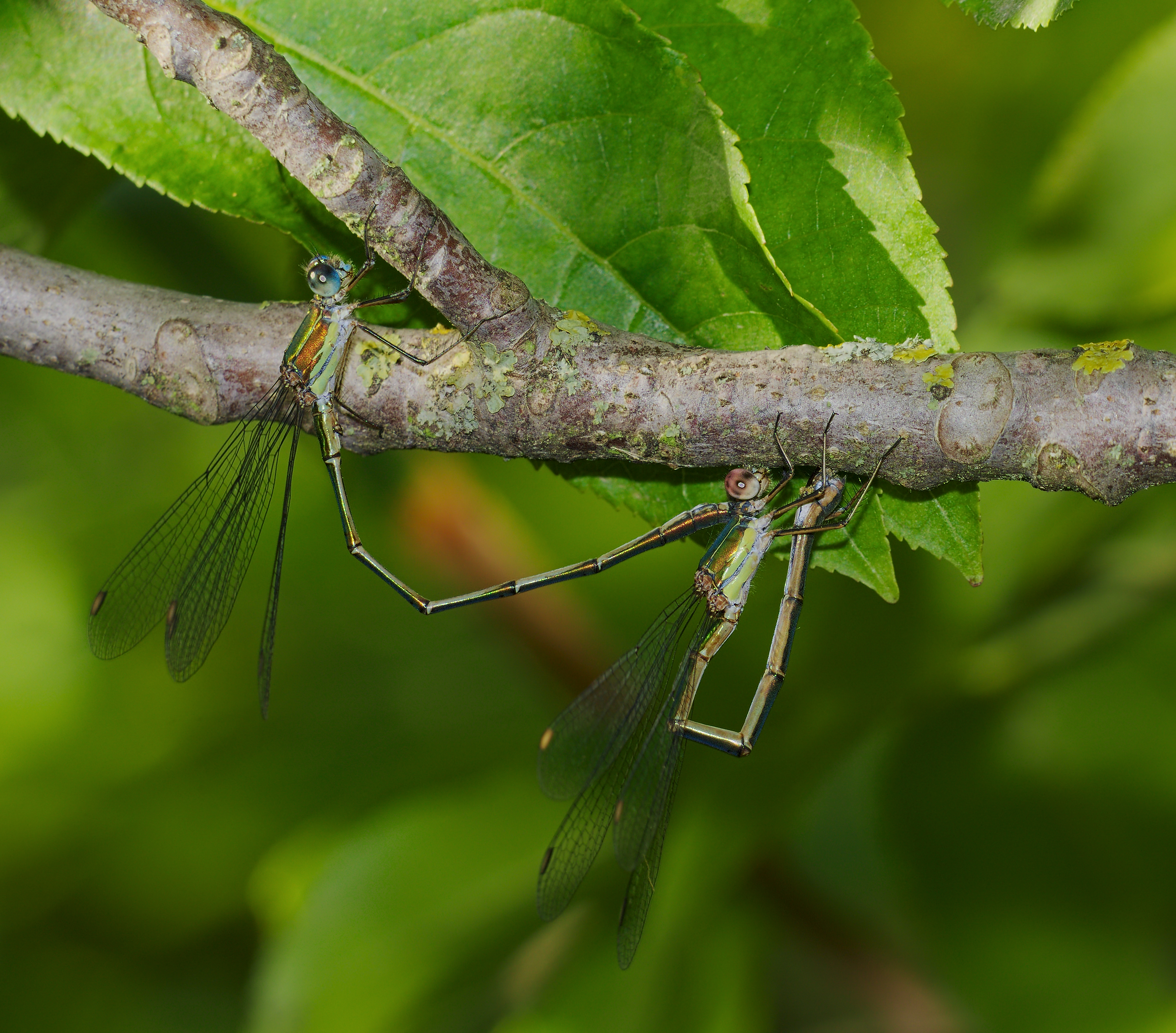 Western willow spreadwing - Lestes viridis, couple at oviposition. Taken by the Vogelstangsee in Mannheim, Baden-Württemberg, Germany.